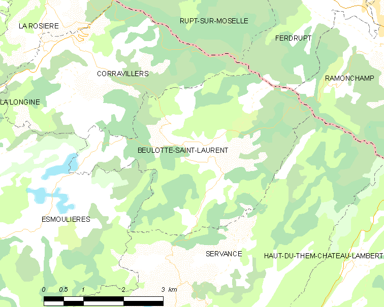 Map of French municipality